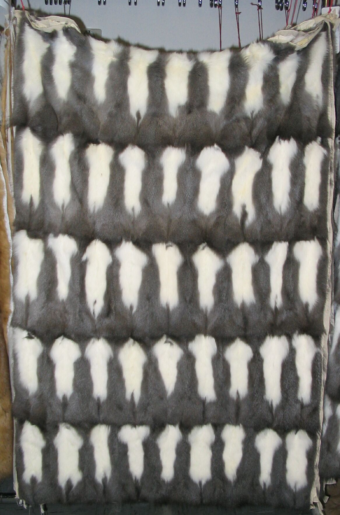 Russian squirrel skin plate (bellies)